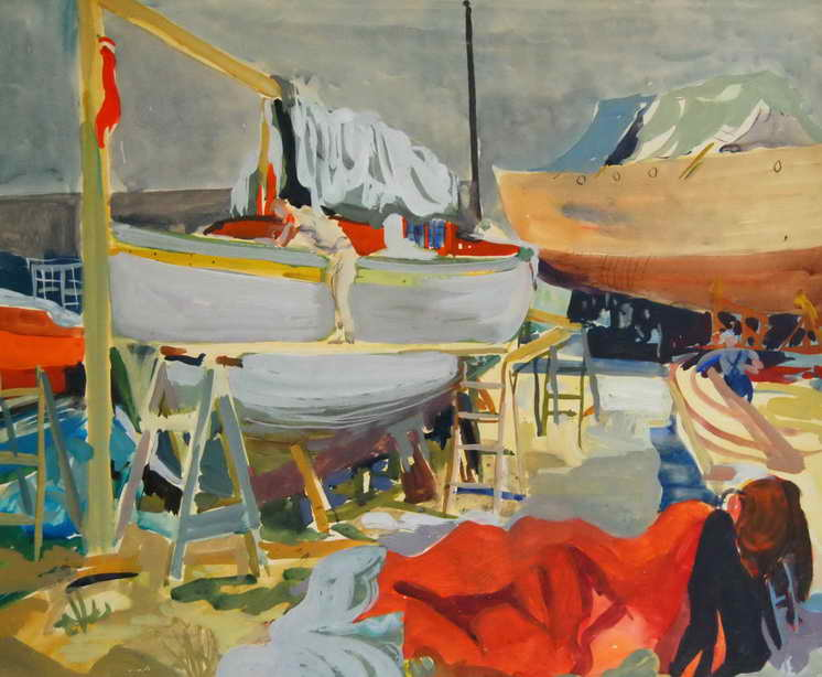 Gouache, pen and ink. A man stands on a scaffold working on the hull of a boat. Bright red sailcloth or canopies folded in the foreground